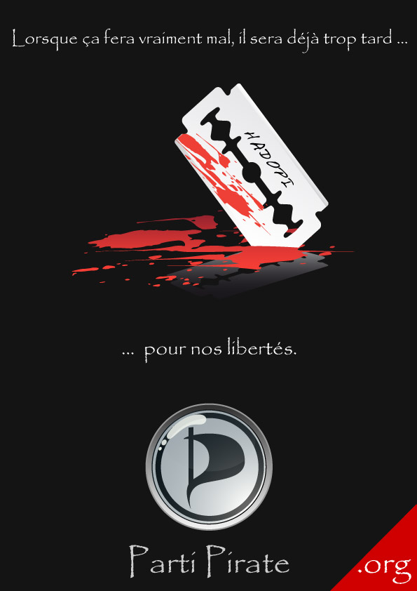 Pirate Party poster (France) by Sanpytt